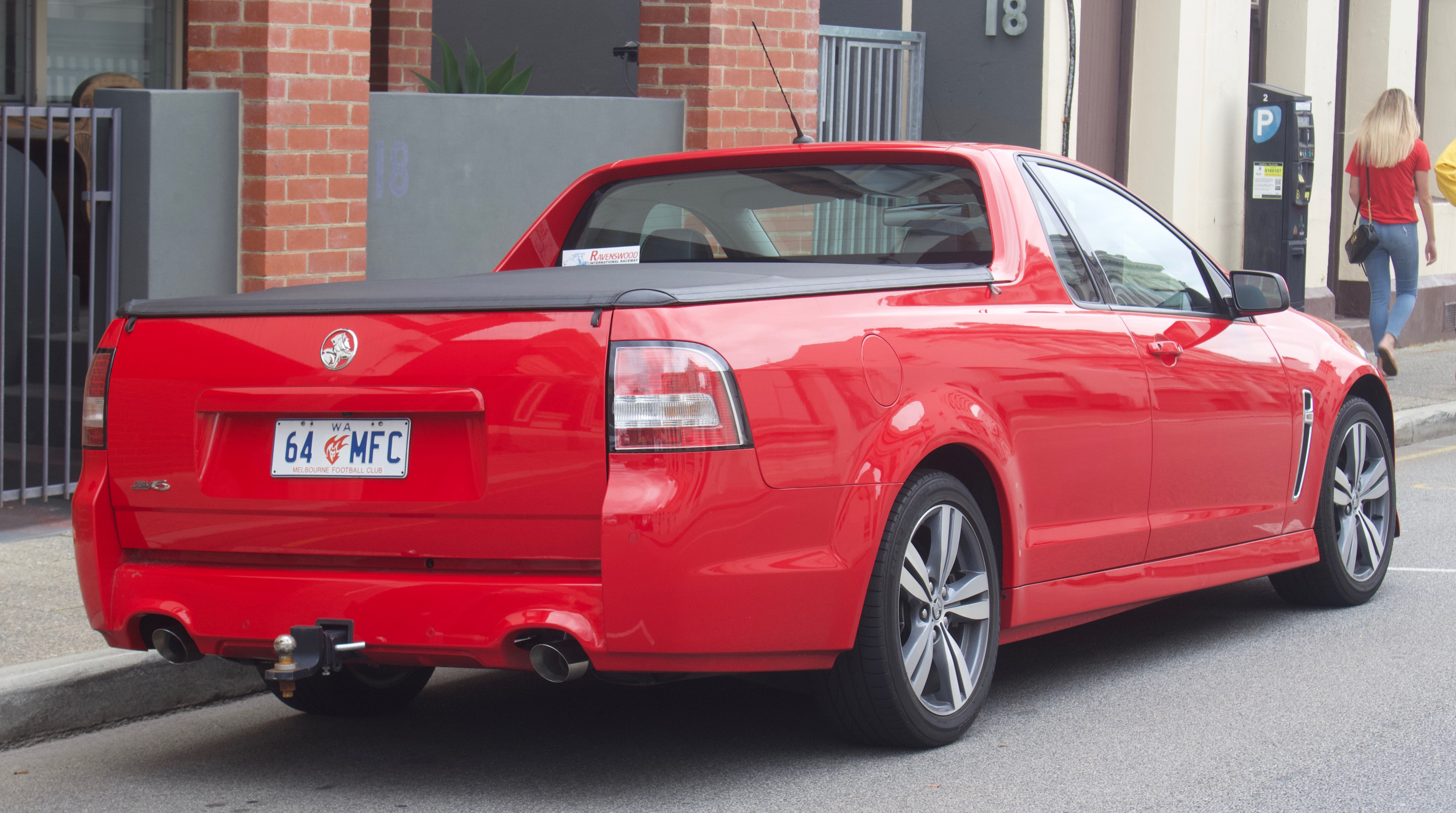 2014 Holden Ute (VF MY14) SV6 utility. Photographed in Fremantle, Western Australia, Australia.